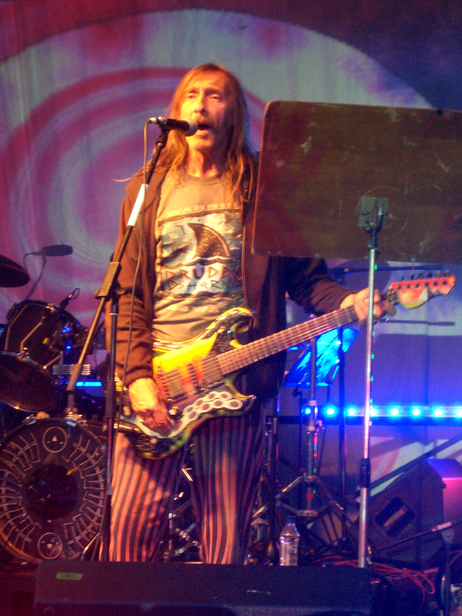 Dave Brock performing live on stage with Hawkwind at the Skyfest festival, held at Biddulph Grange Country Park, Congleton, Staffordshire, UK on Sunday 12th July 2009.